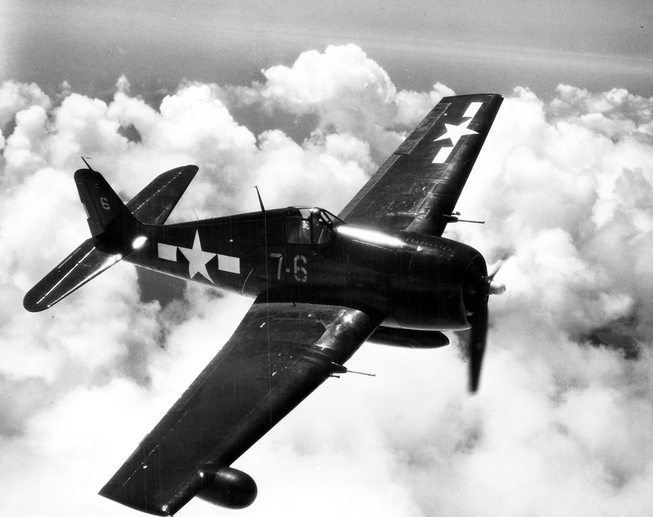 A Grumman F6F-5N Hellcat night fighter assigned to the Naval Air Station Jacksonville, Florida (USA), in 1944/45.